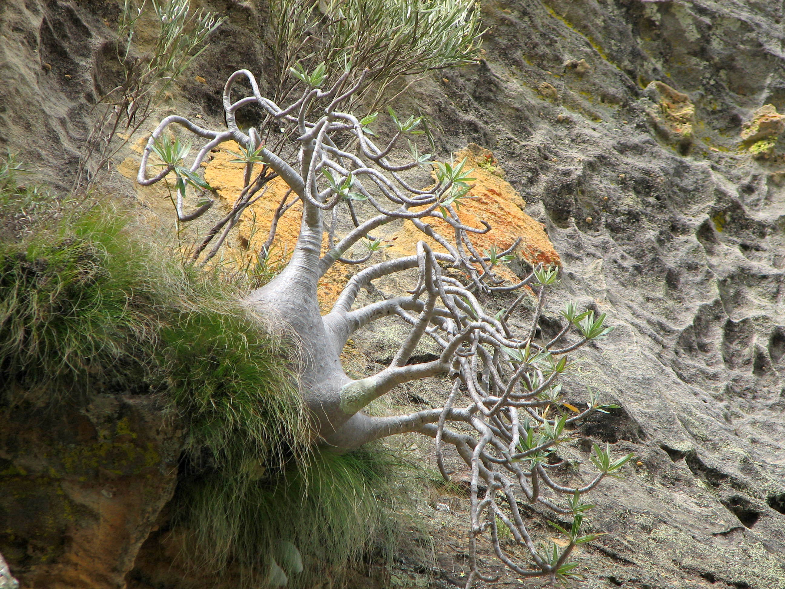 Pachypodium rosulatum gracilius in the Isalo National Park, Madagascar